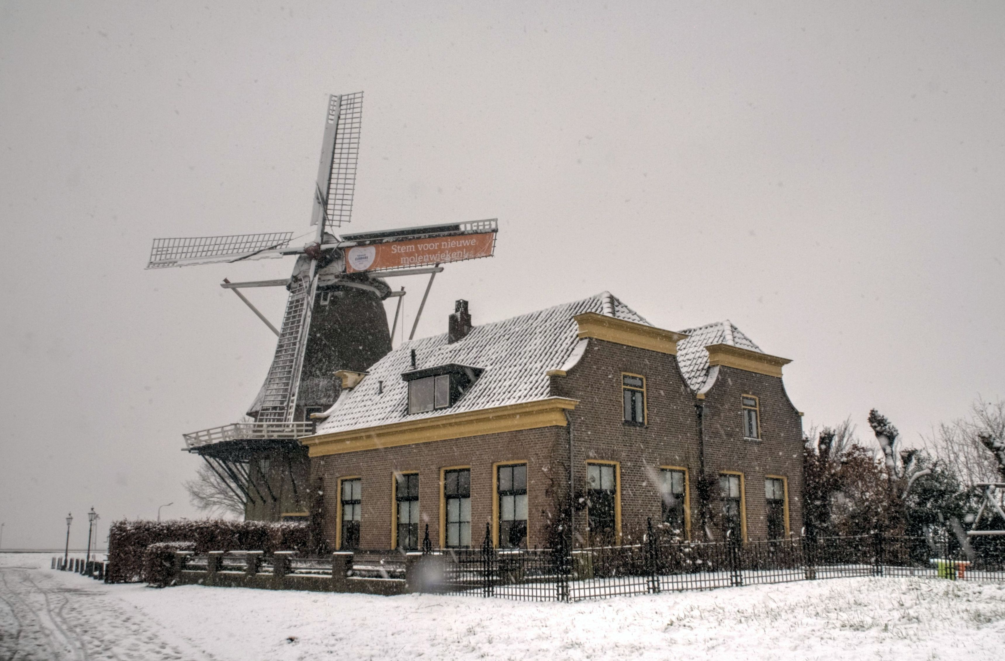 Wiekenactie De Zwaluw